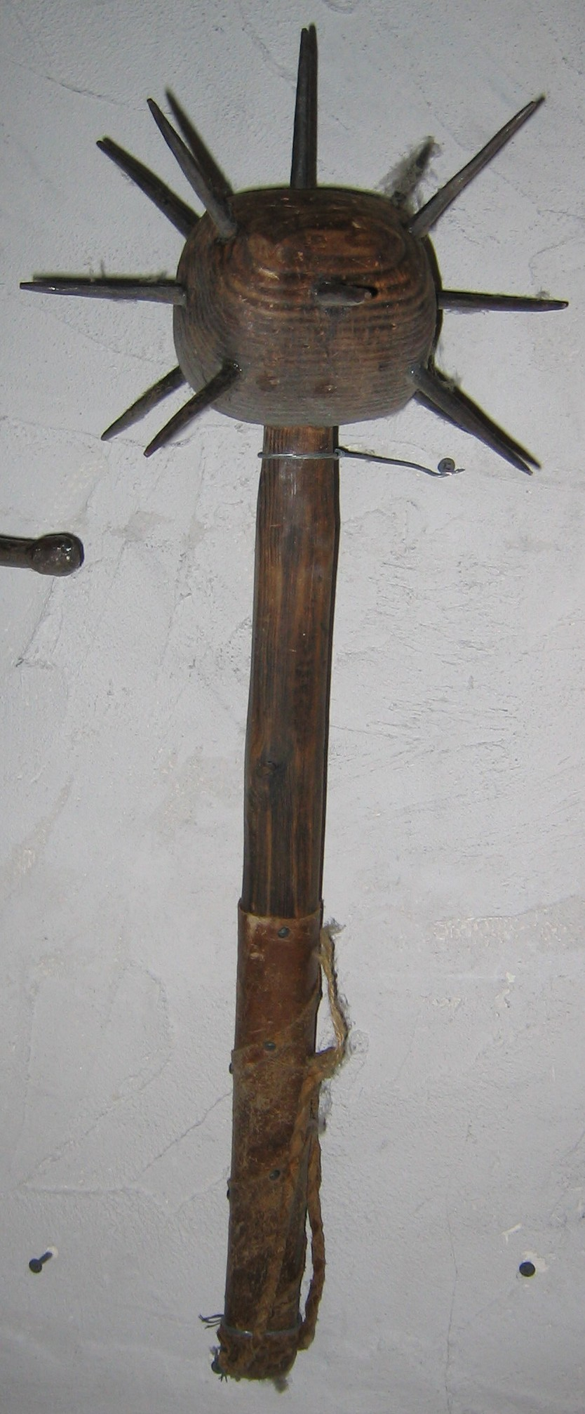 Morning star at the torture museum in Freiburg im Breisgau